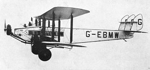 Imperial Airways De Havilland DH.66 Hercules City of Cairo G-EBMW - 14 seater airline used on the Cairo-Baghdad route